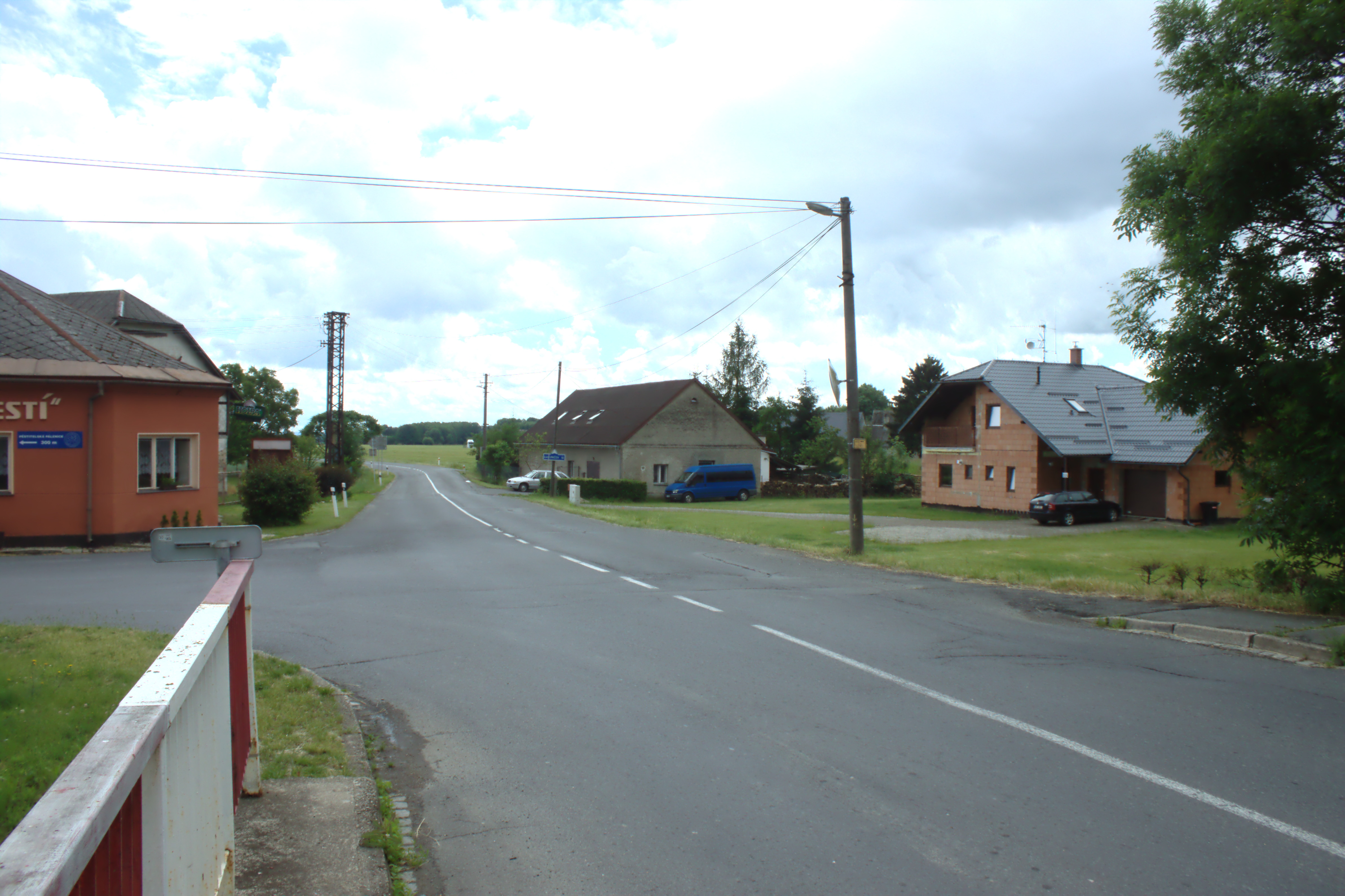 Main road in the village of Dolní Libina, Olomouc Region, CZ